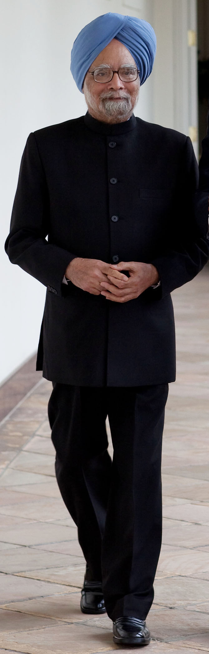 President Barack Obama escorts Prime Minister Manmohan Singh of India along the White House Colonnade to their meeting in the Oval Office, Nov. 24, 2009.